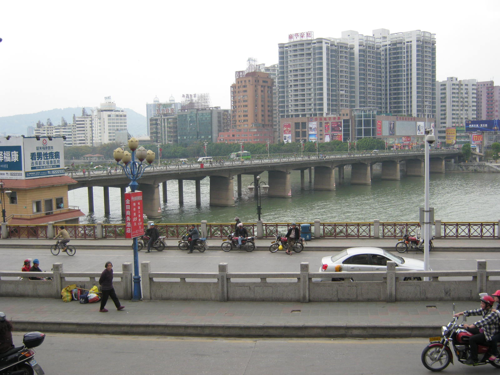 Qujiang Bridge (曲江桥)